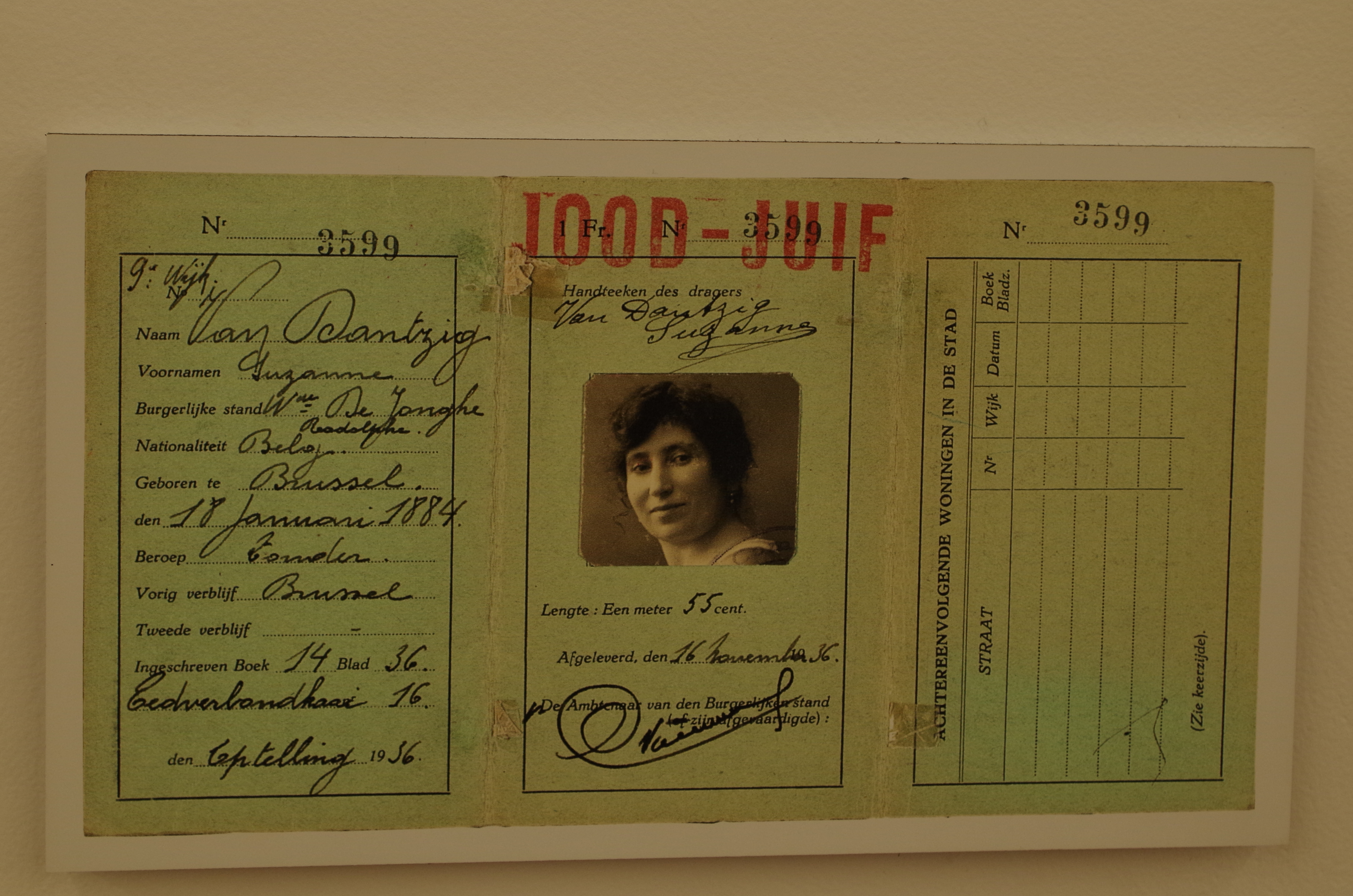 This is a file created at the museum: Kazerne Dossin Memorial in Mechelen